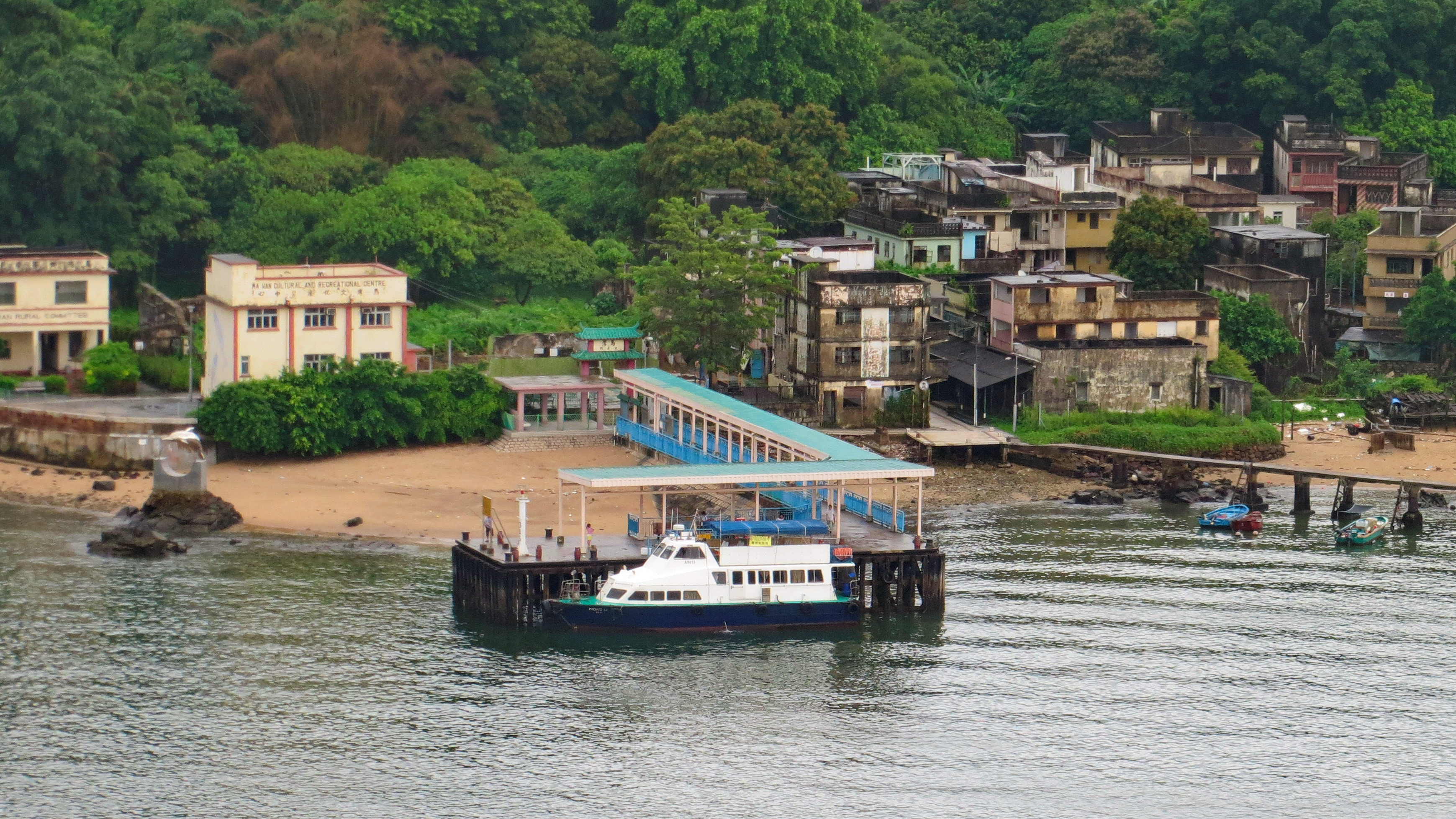 Man Wan Public Pier on the southwest at Ma Wan Main Street Village, Ma Wan, Hong Kong.